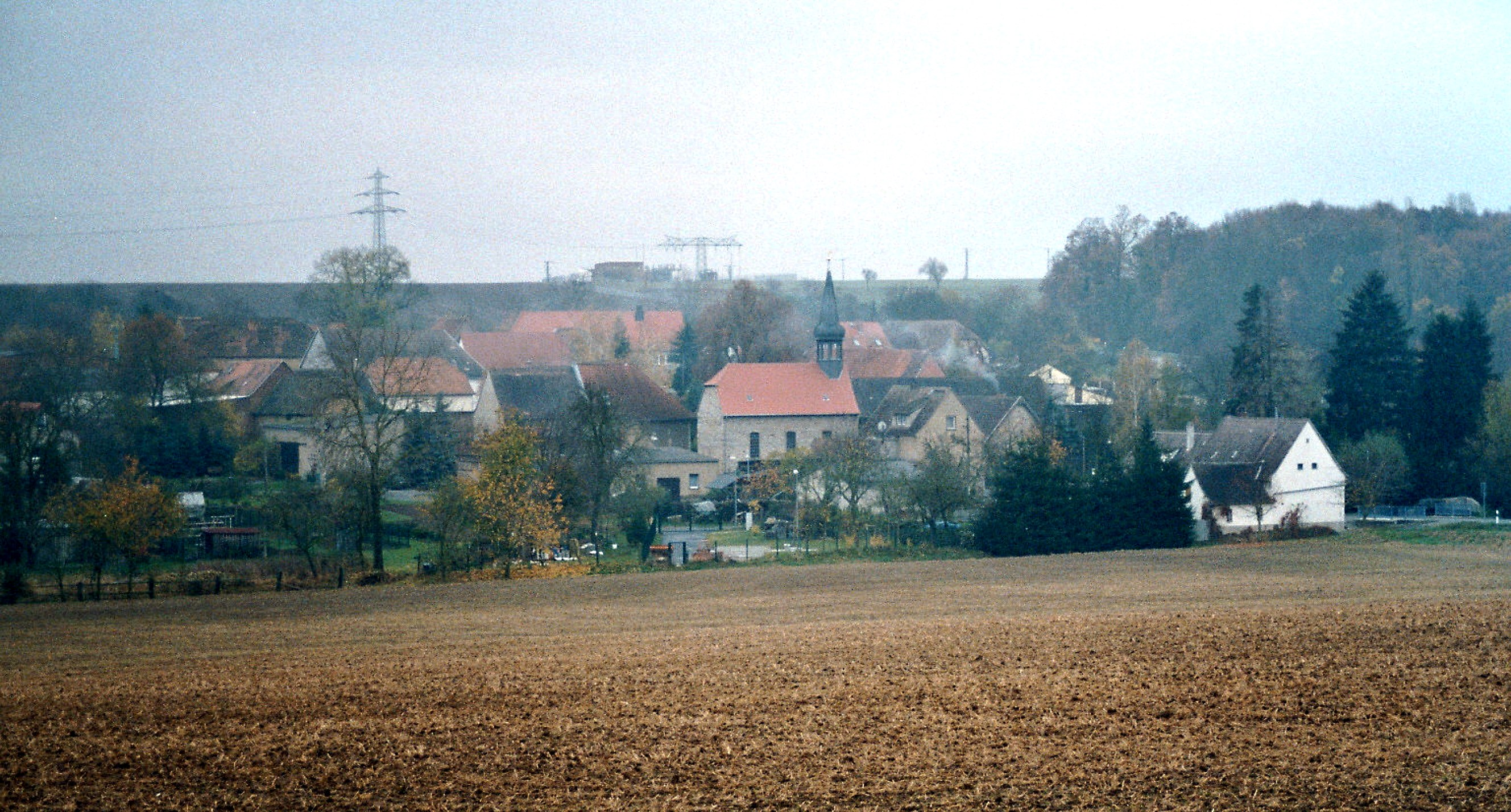 View to the hamlet Schimmel